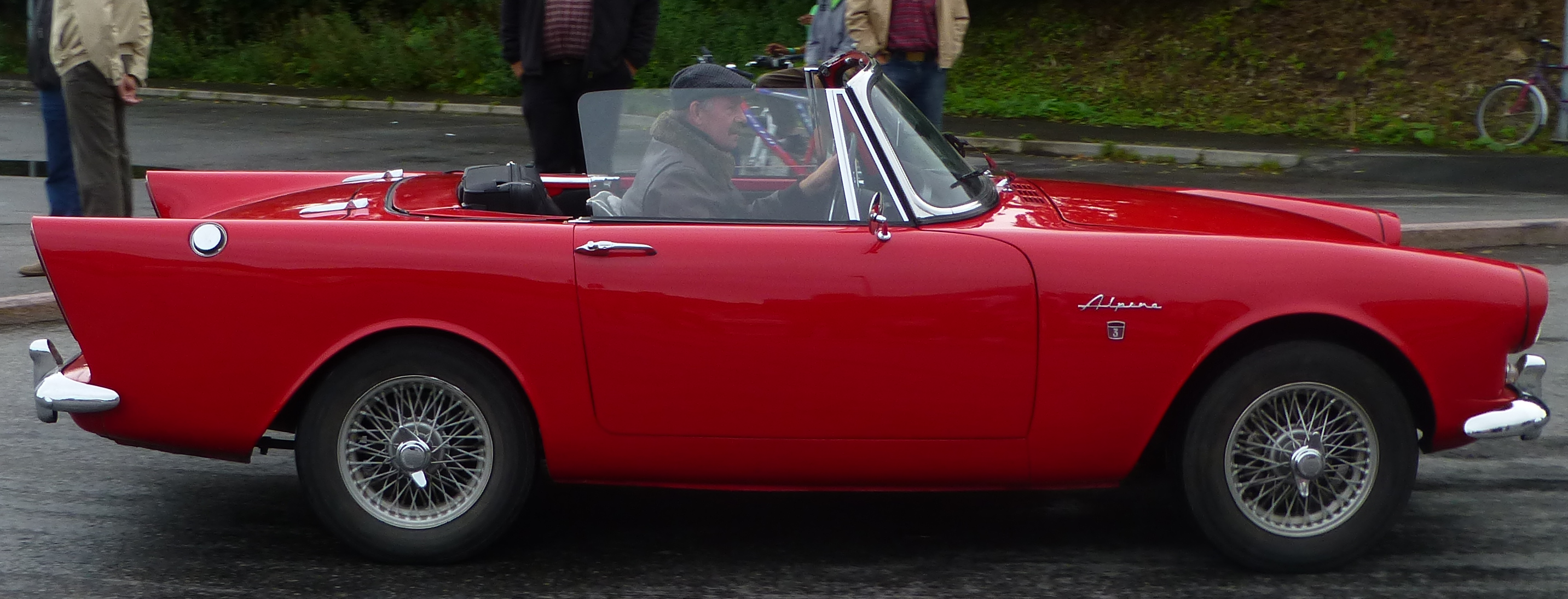 1963 Sunbeam Alpine 111. Picture taken on a car show in Hønefoss, 2012.